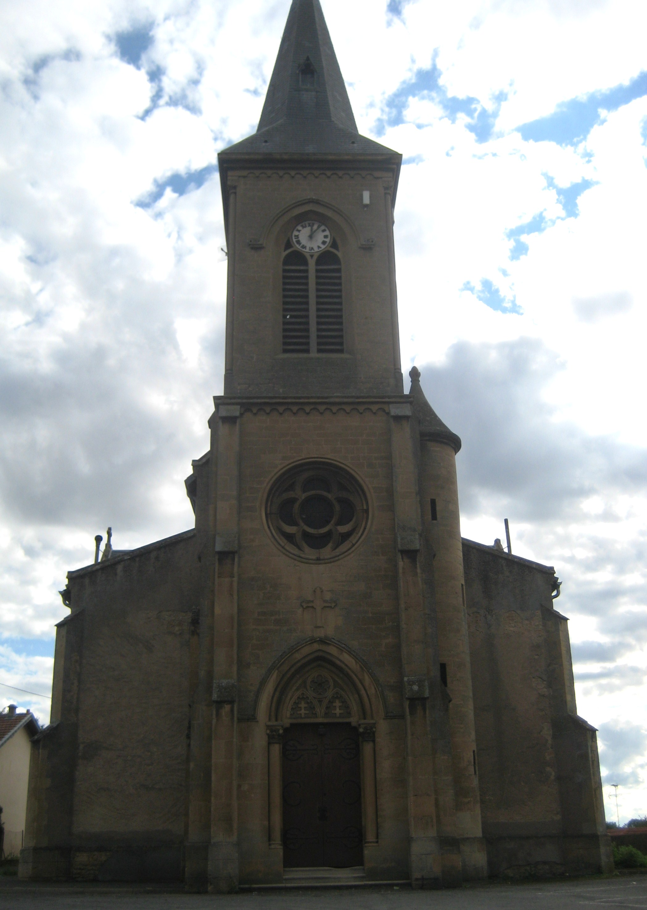 Description eglise Moineville Date7 August 2011Sourcemon appareil photoAuthorAimelaimePermission (Reusing this file) eglise Moineville